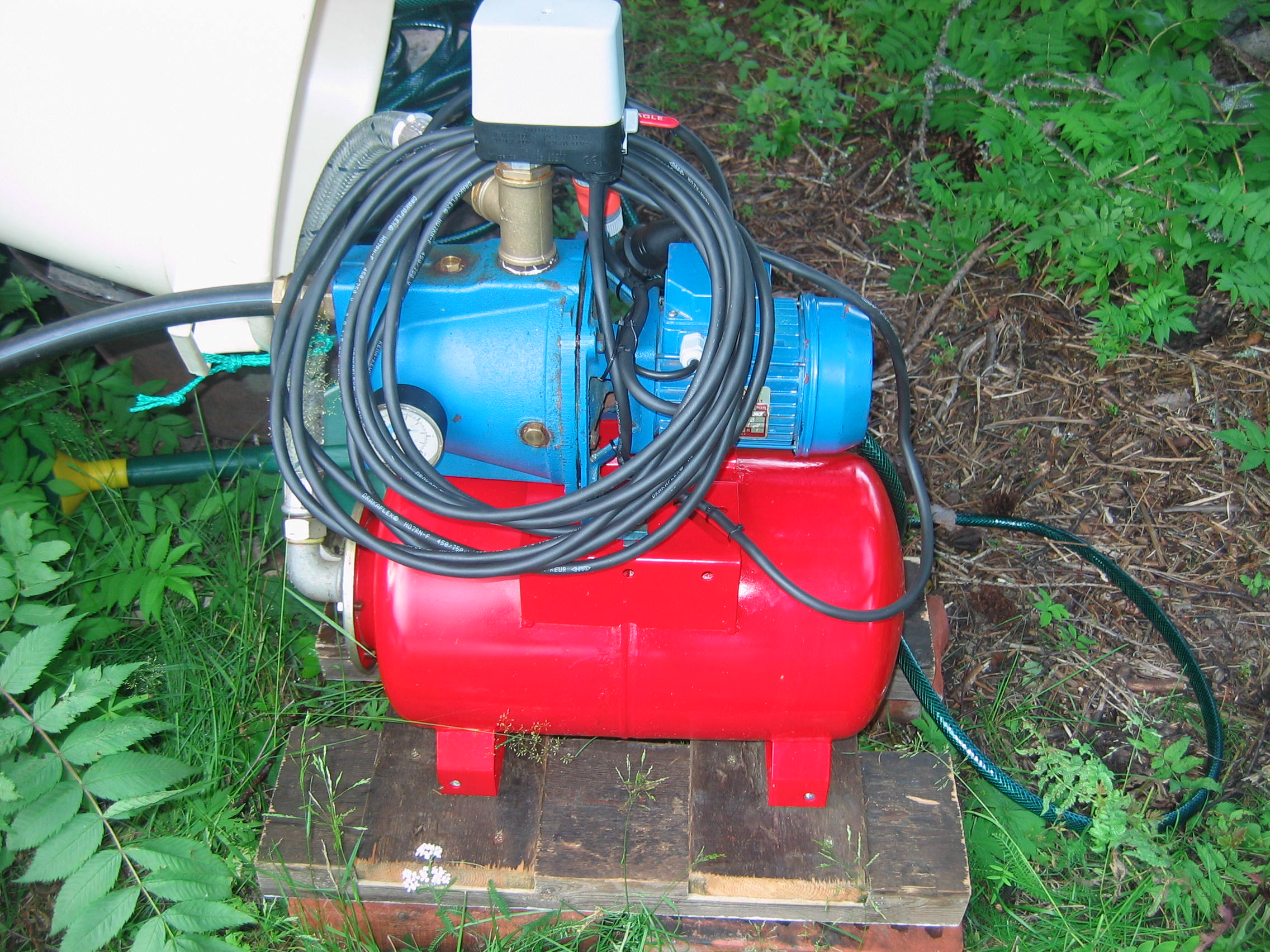 Small waterpump for garden use.